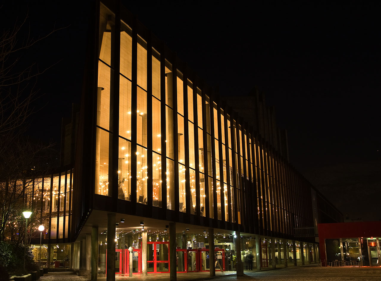 The Grieg Hall (Norwegian: Grieghallen) is a 1,500 seat concert hall in Bergen. It has been the home of the Bergen Philharmonic Orchestra since the hall's completion in 1978.